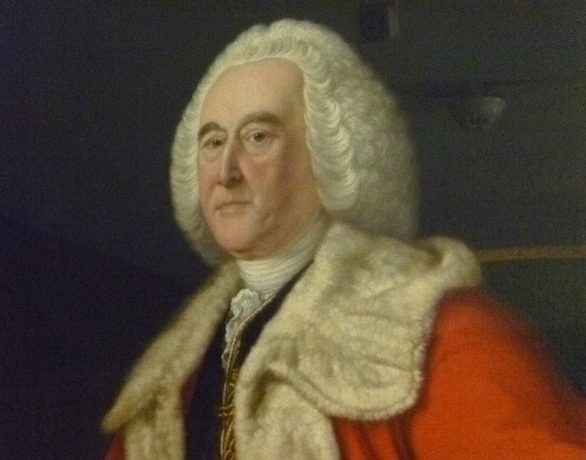 Detail from a portrait in Huntly House Museum, Edinburgh